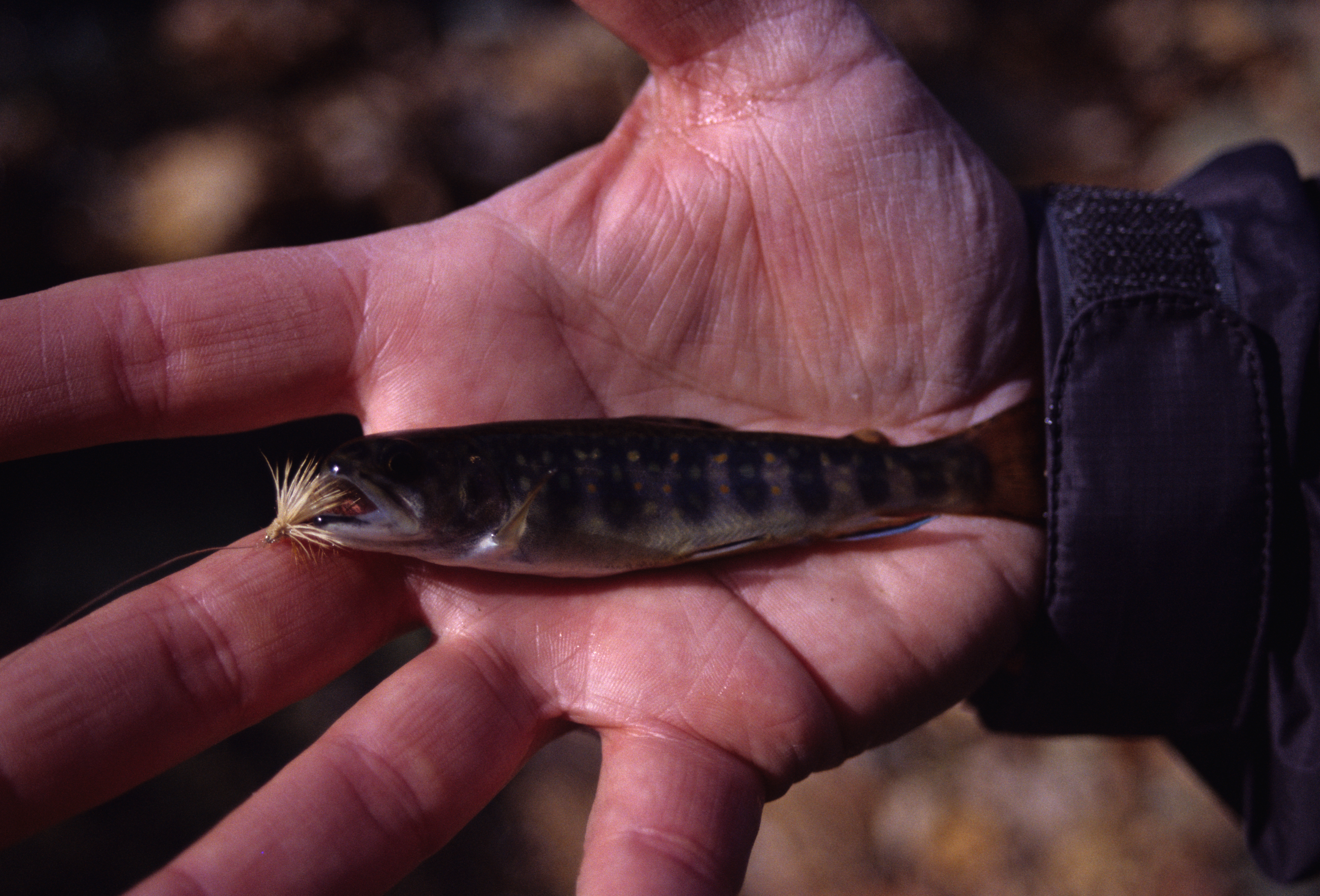 Salvelinus fontinalis (common name(s): brook trout, charr, omble de Fontaine, salter, sea trout)with a fly in its mouth. The fish lies in the palm of a hand.Physical Description: Camera: Canon Eos Elan II, Film: Fuji Sensia 200Subject: Fishes, Fishing, Animals, BaitsUncontrolled Subject: Photographs, FishhooksContinent: North AmericaCountry: United StatesU.S. State: VirginiaCity or Place Name: Shenandoah